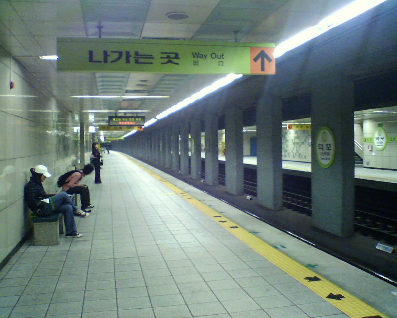 Deokpo Station platform for Jangsan Station